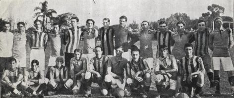 Atlanta in 1915